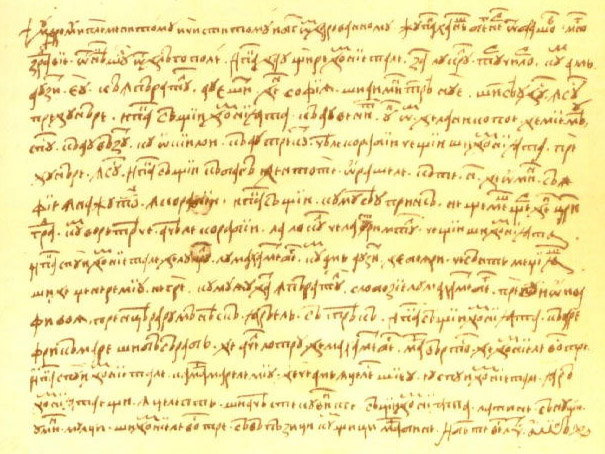 Neacşu's Letter, written in 1521, is the oldest surviving document available in Romanian.